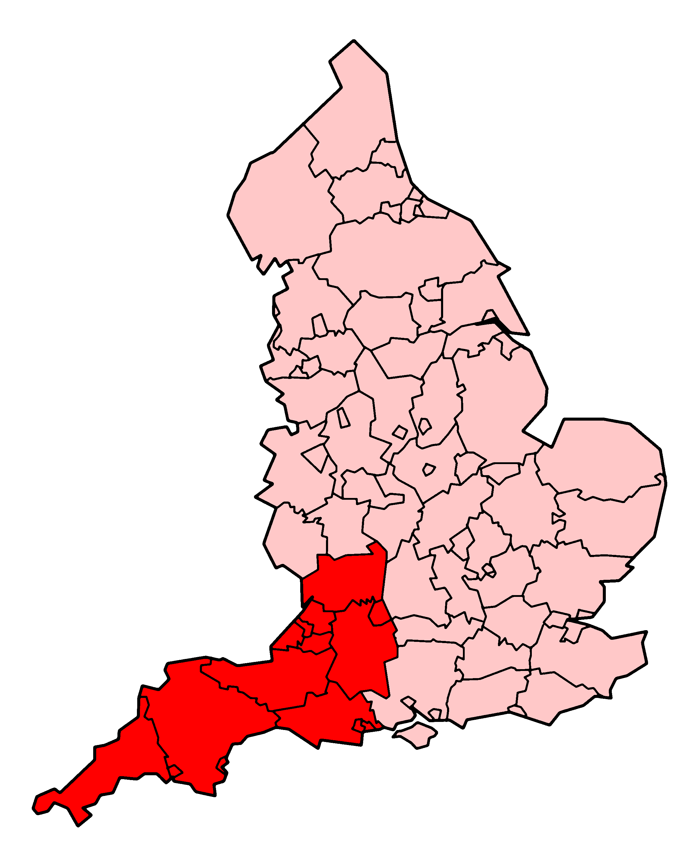 Map of the South Western Ambulance Service's coverage area